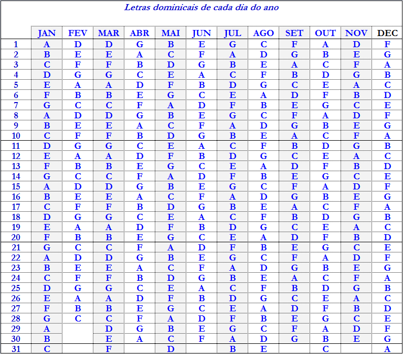 Table of the dominical letter of each day of the Julian or Gregorian year of 365 days.